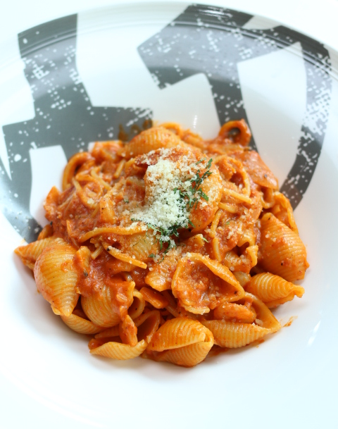 Kimchi conchiglie